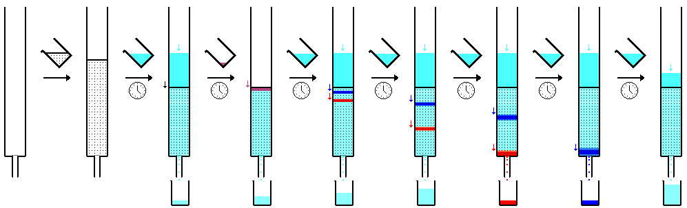 Column loaded with silica/column medium Eluting solvent added to compact silica layer and to remove air bubbles Purple mixture as a thin layer is added to top of silica layer Eluting solvent added and eluted (purple layer separates into a red and blue layer) Eluting solvent added and eluted (red and blue layers separate further) Red layer collected (the faster moving layer) Blue layer collected (the slower moving layer) No more compounds are eluted, process ended